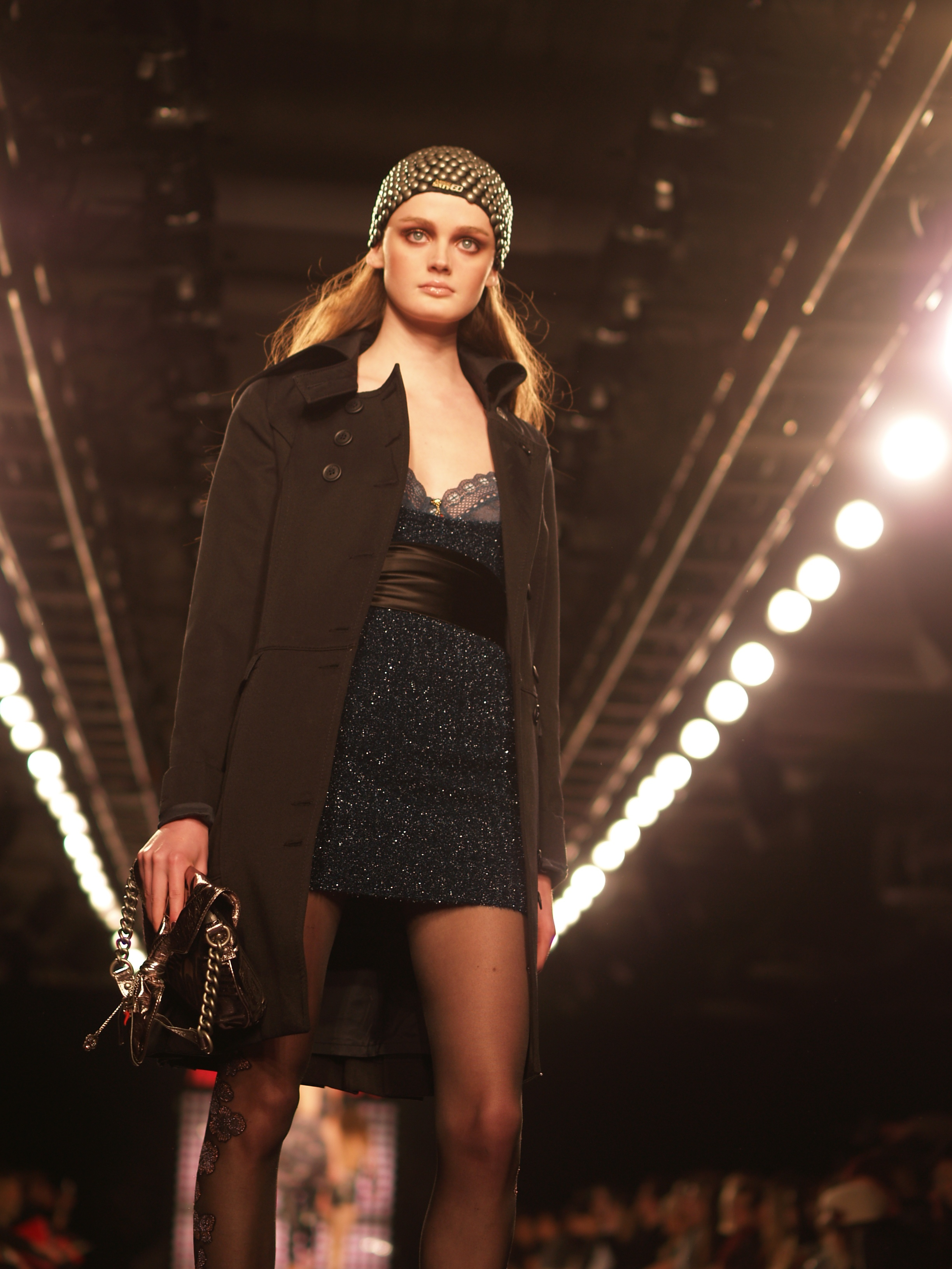 Lisa Cant modeling for Miss Sixty, Fall 2007 New York Fashion Week.